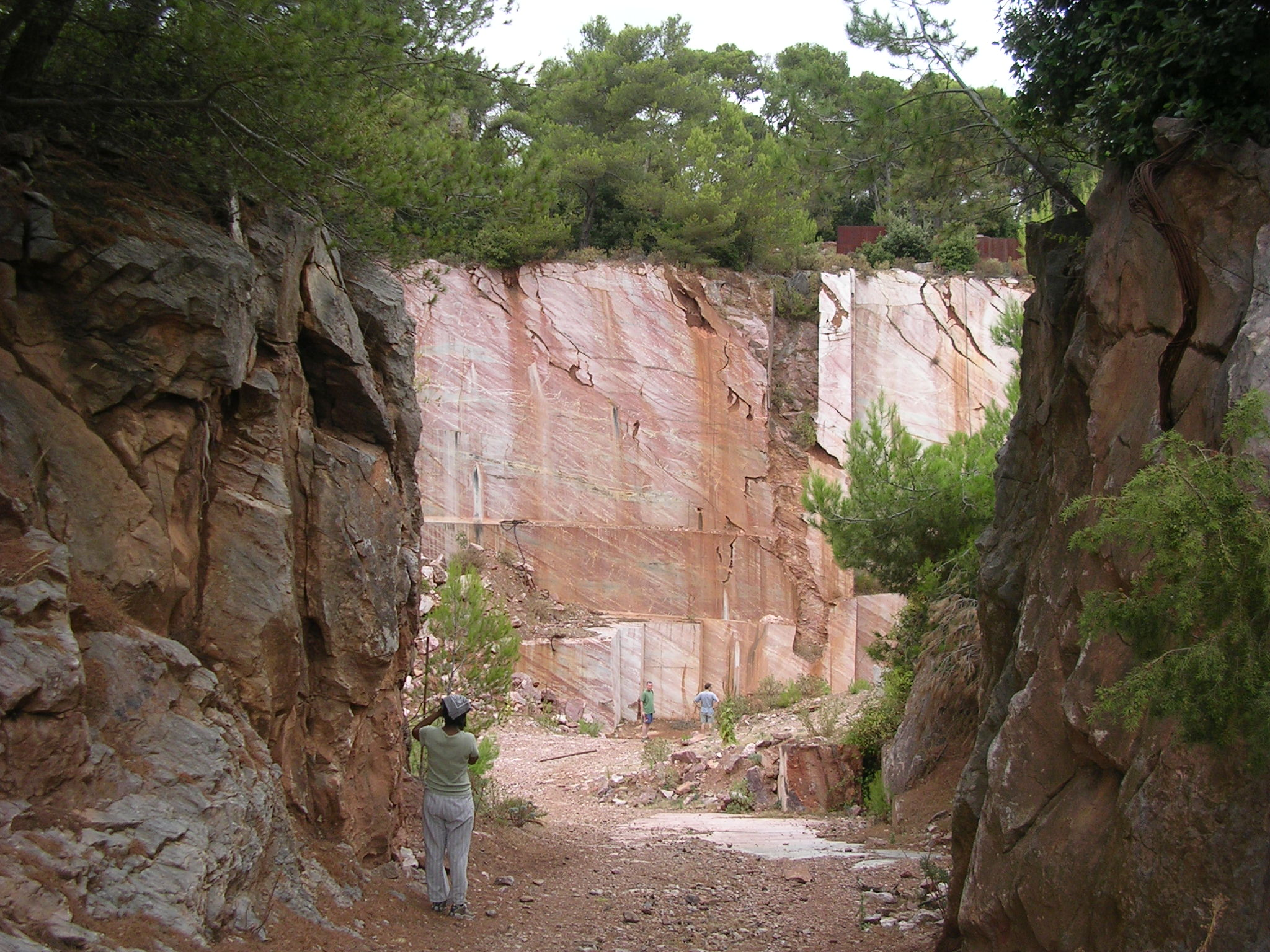 Marble quarry at Buffens near Caunes-Minervois, France